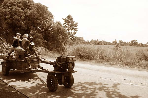 Photos taken during my recent visit to Northern Luzon. The trip is chronicled here: [1].